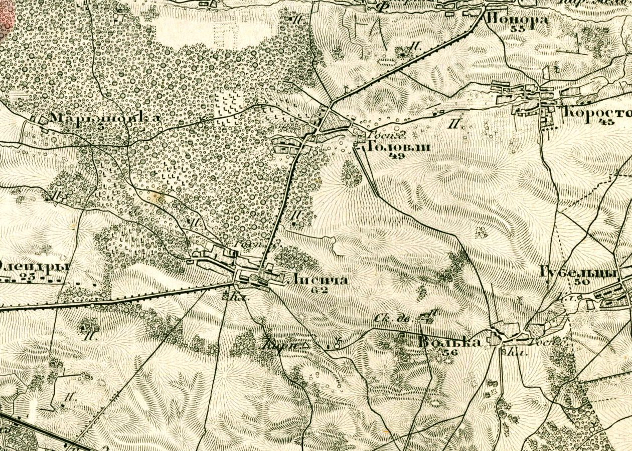 Military topographic map of the Russian Empire